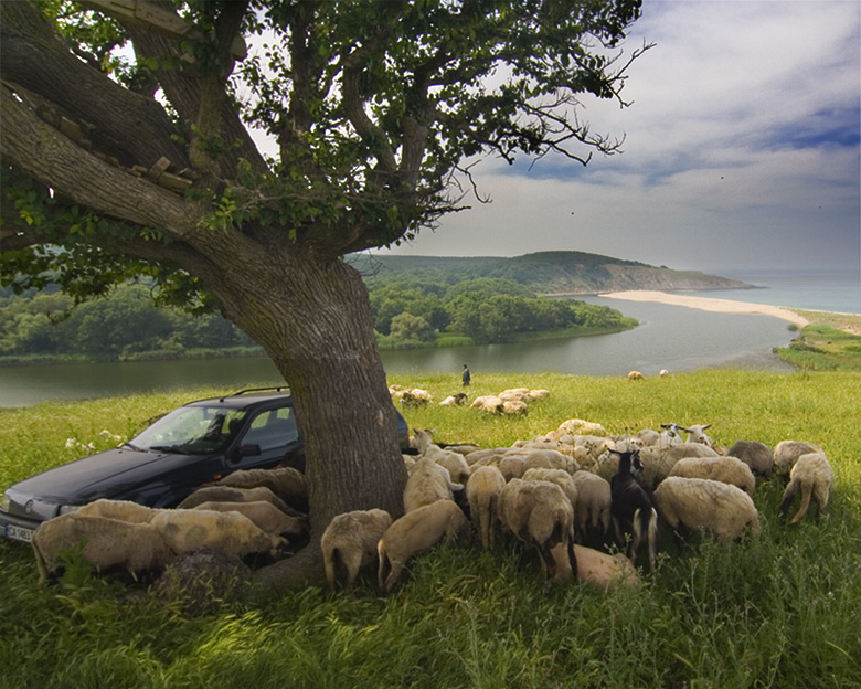 Sheep near the river Veleka